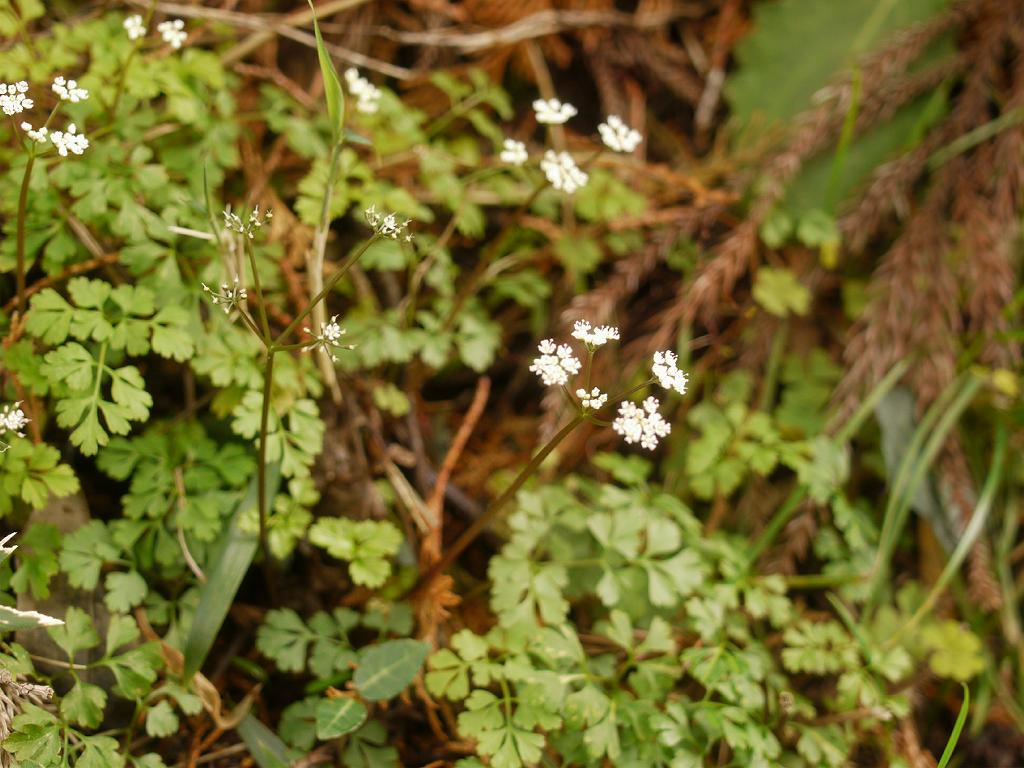 Chamaele decumbens (Apiaceae)